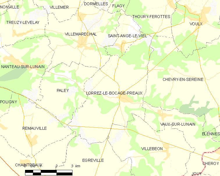 Map of French municipality Lorrez-le-Bocage-Préaux